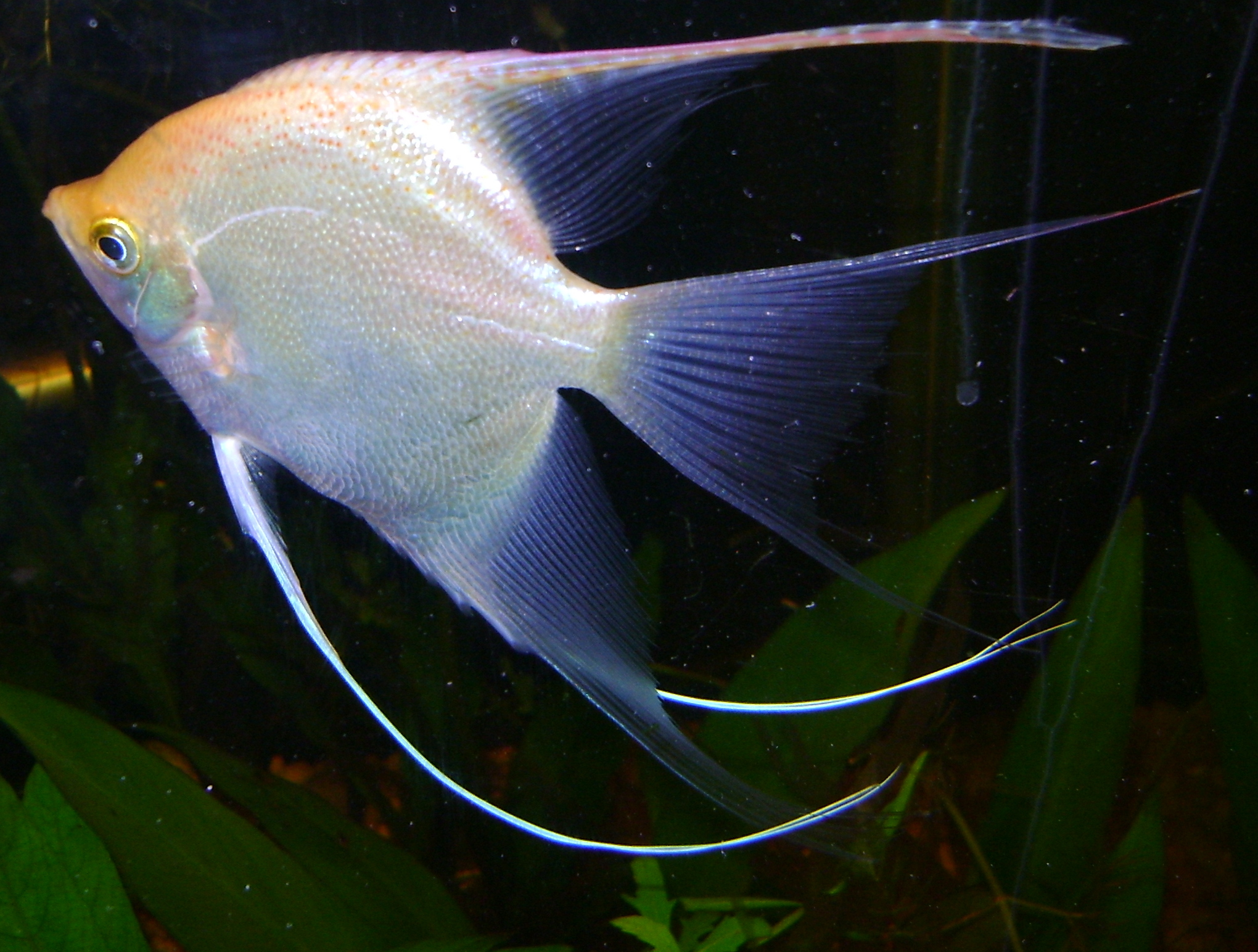 Pterophyllum scalare - Angel Fish